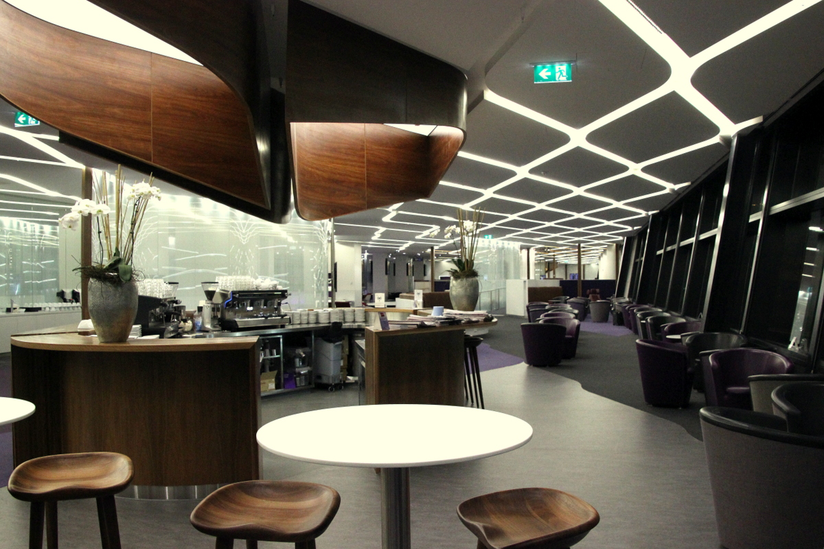 View of part of the Melbourne Airport lounge of Virgin Australia Airlines late on a Friday night. The airline's lounges have a uniform décor. Digital image taken by YSSYguy on 4 July 2014 and uploaded for use in the Virgin Australia article. Image edited using Picasa software. YSSYguy (talk) 10:54, 30 October 2016 (UTC)